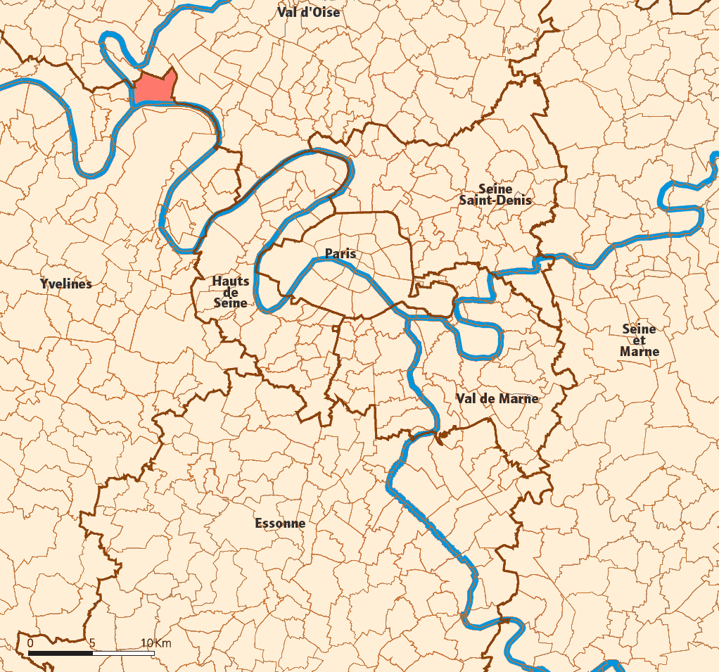 Created map myself.